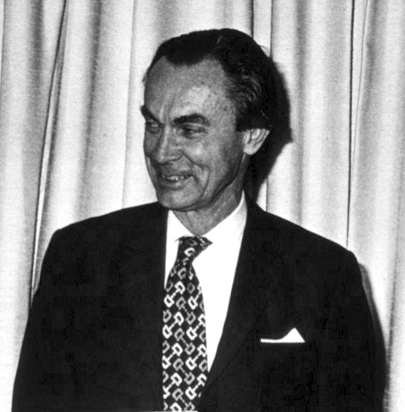 Sune Bergström, Swedish biochemist